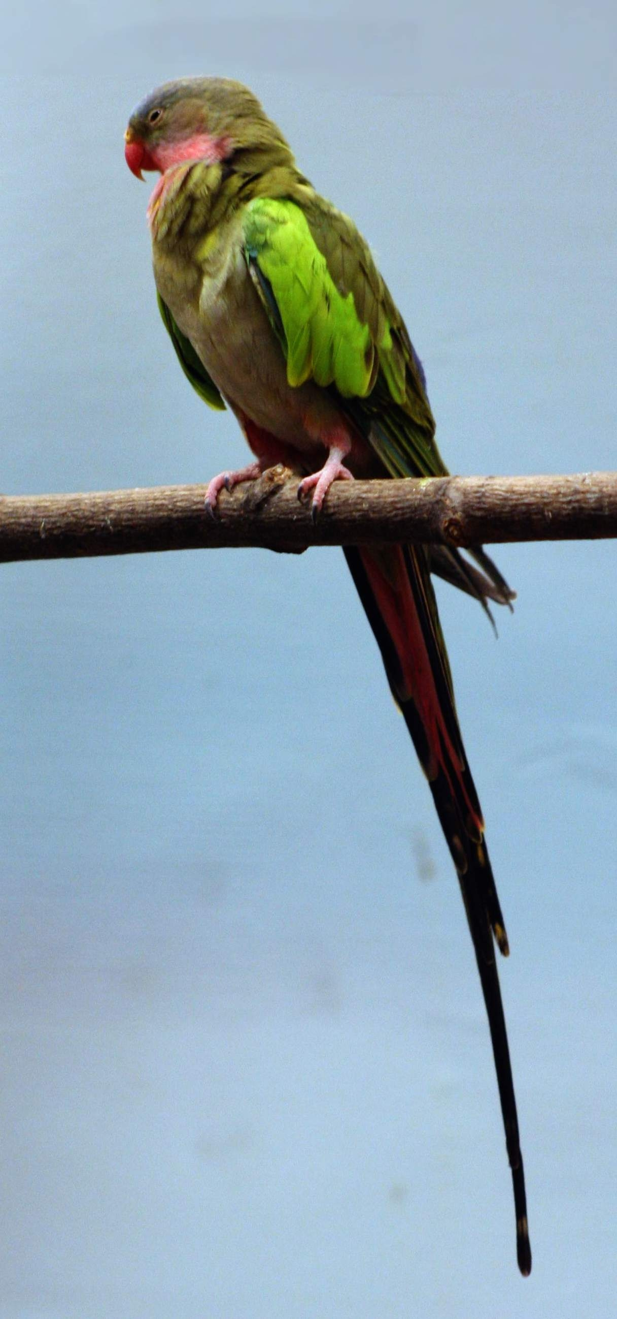 Princess Parrot, Polytelis alexandrae, at the Buffalo Zoo.